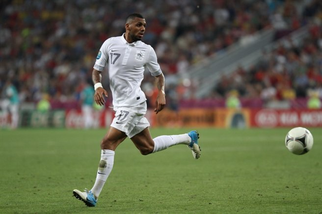 Yann M'Vila at Euro 2012 match against Spain